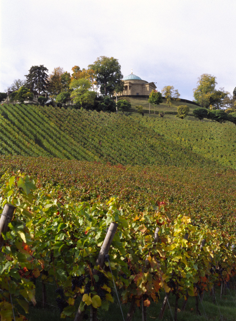 Vineyard, Stuttgart-Untertürkheim, Baden-Württemberg, Germany